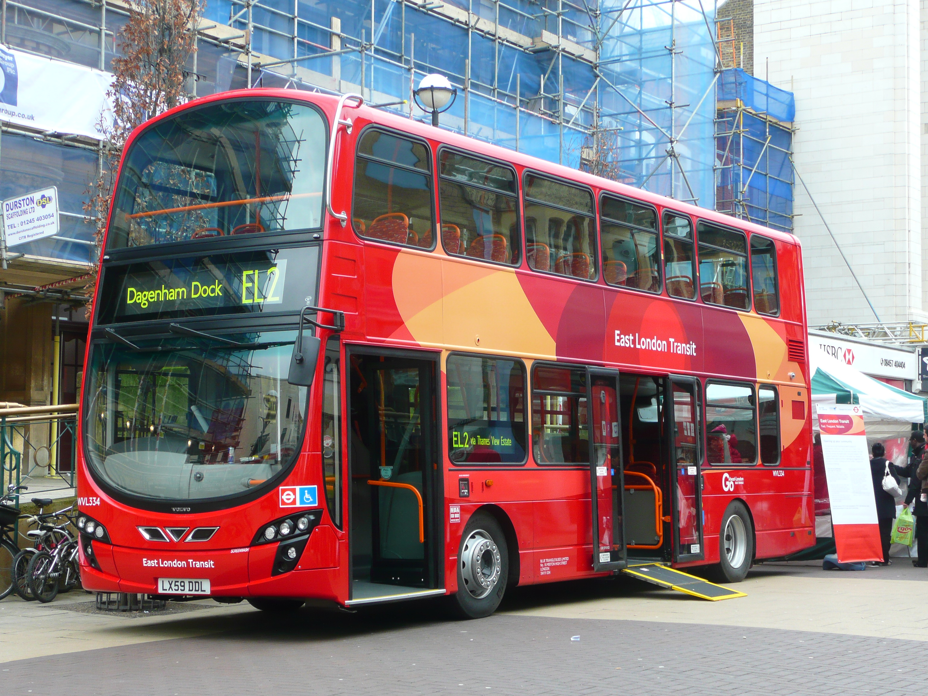 A new bus for the East London Transit BRT scheme, being shown to the public outside Ilford Town Hall on 24 January 2010. The service is operated by Blue Triangle, and seen here is their bus WVL334 (LX59 DDL), a Volvo B9TL/Wright Eclipse Gemini 2. It wears a special livery for use on the East London Transit services, although it is still mostly red like all other London buses.